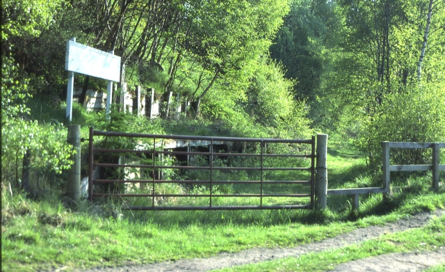 Dailuaine Halt. This leafy scene disguises a halt on the former railway line, which is now part of the Speyside Way long-distance footpath. The name Dailuaine means, appropriately, 'Green Hollow'.